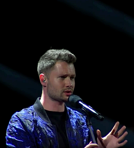 Calum Scott live at the Tabernacle, UK, 9 June 2016.